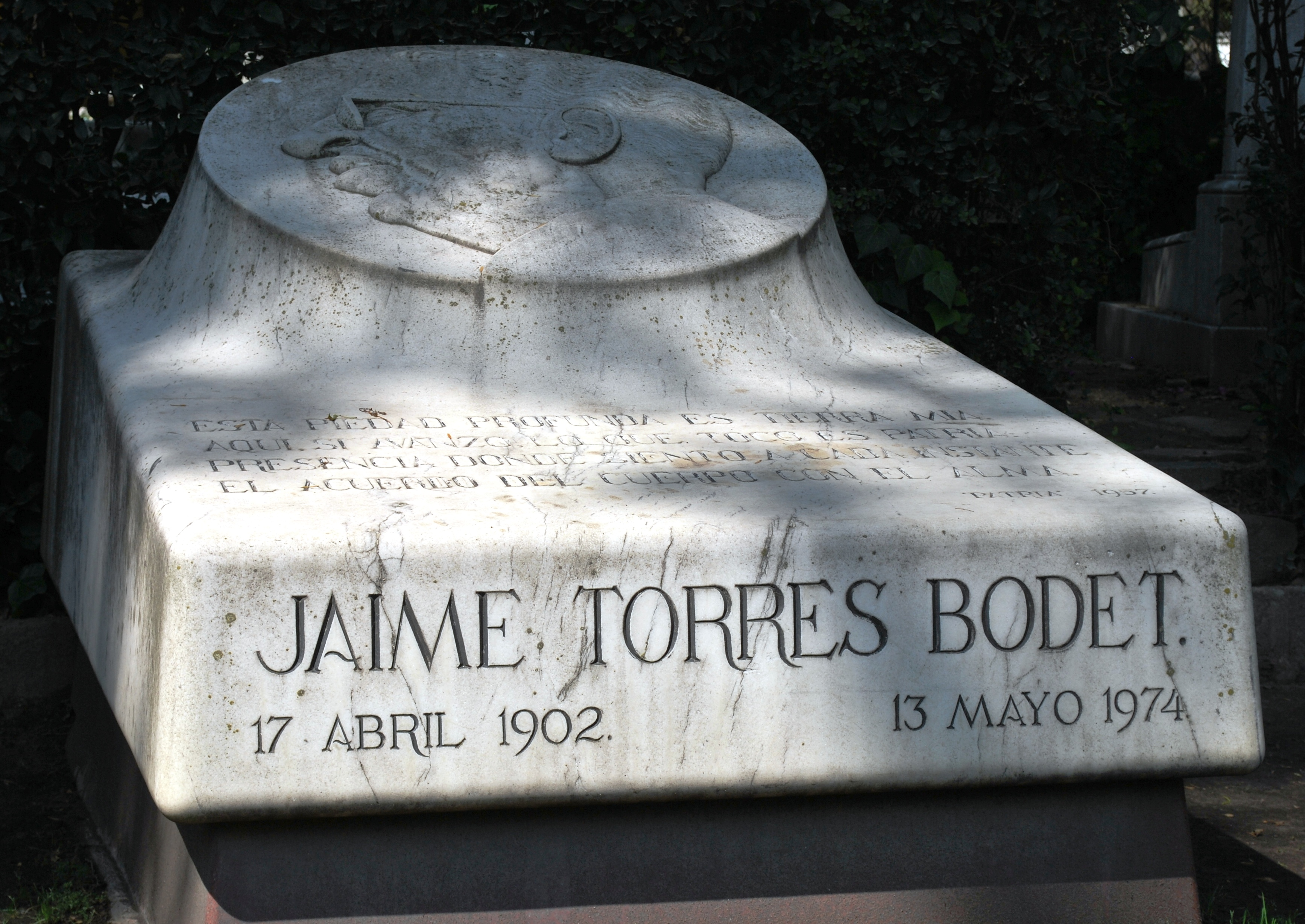 Tomb of Jaime Torres Bodet in the Panteon Civil Dolores cemetery in Mexico City